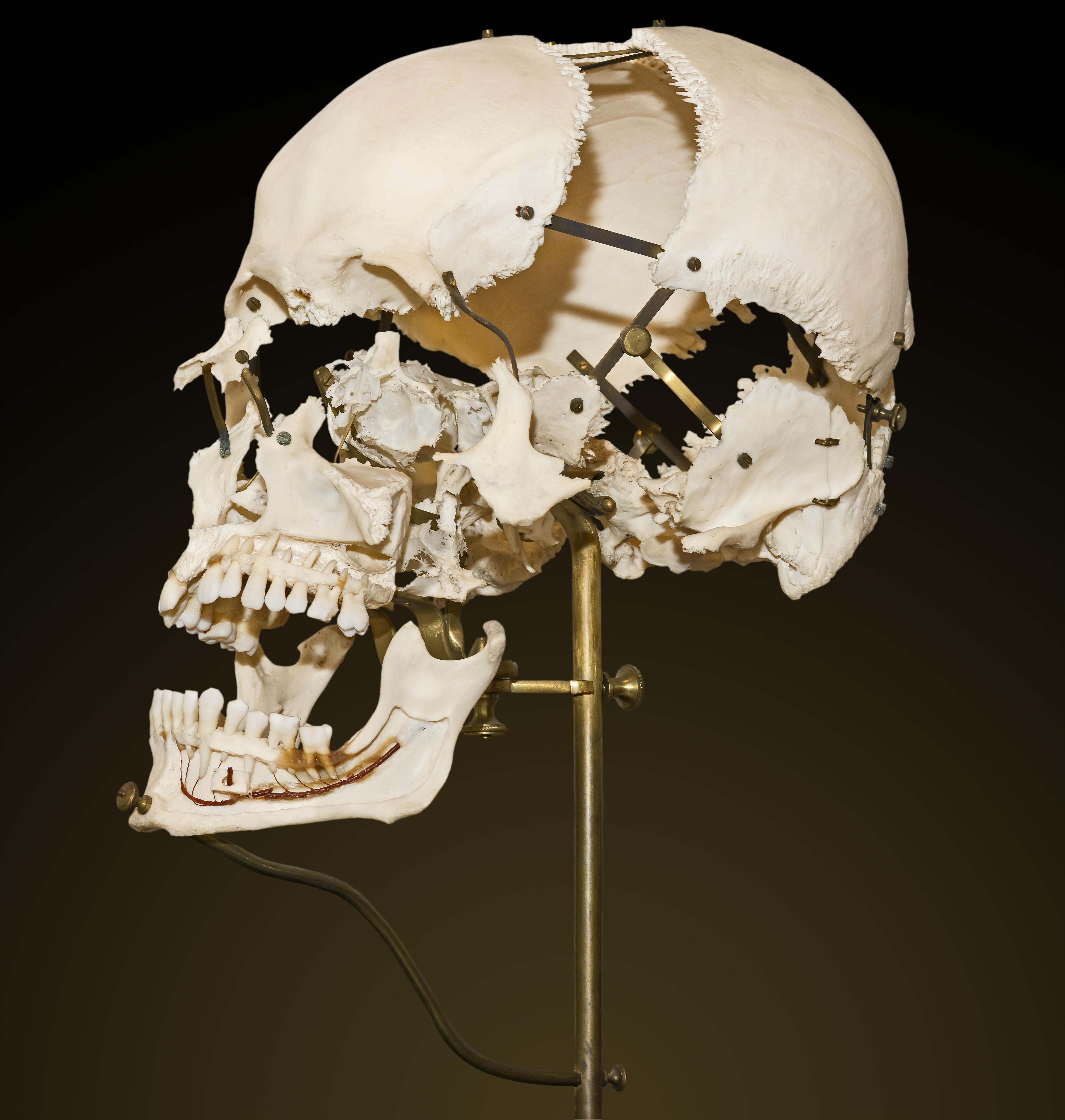 Disarticulated human skull to Beauchene. Preparation by Deyrolle shop in the nineteenth century, Paris France.